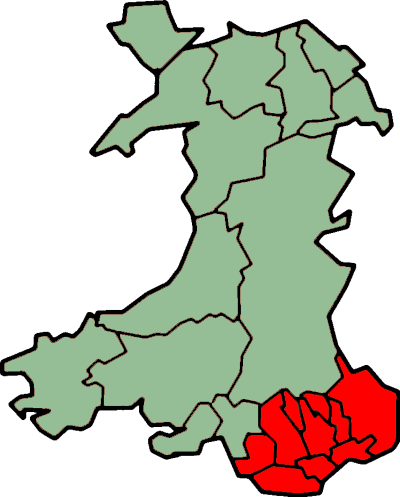 Self made based upon File:WalesNumbered.png